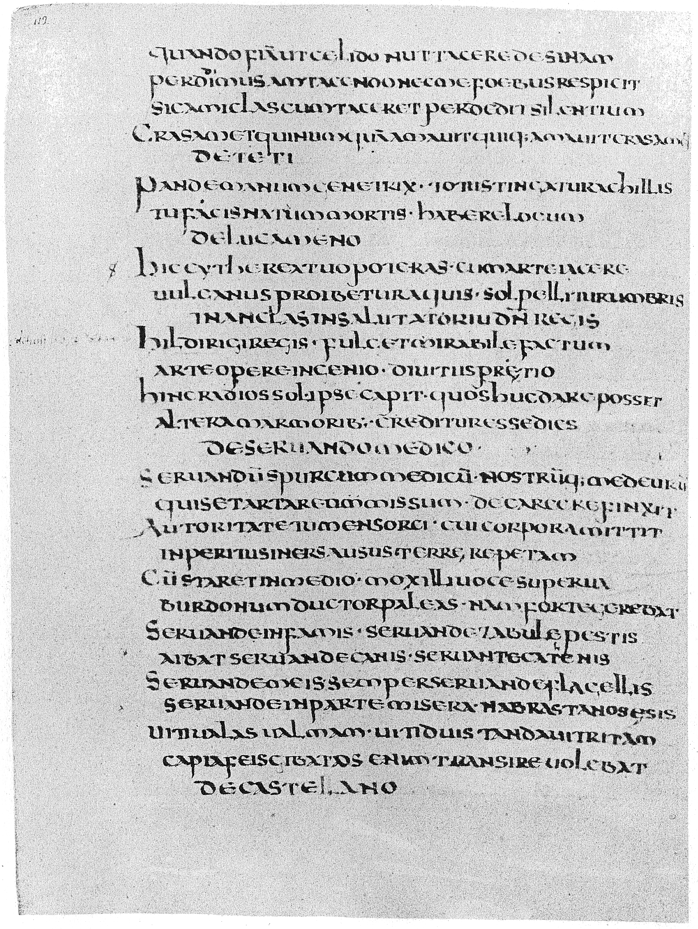 The 5th (and last) text page of the Pervigilium Veneris in codex S, the famous Codex Salmasianus.